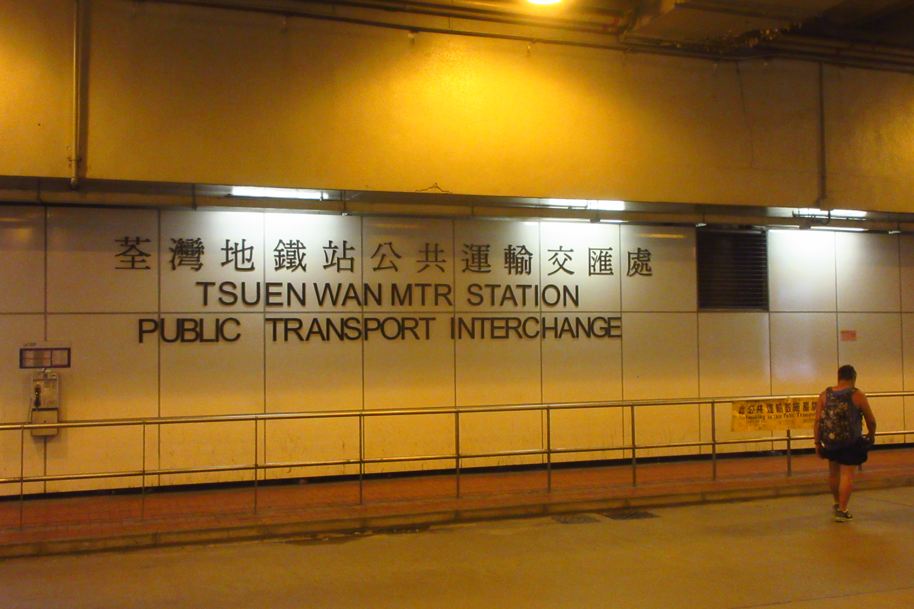 HK 荃灣站公共運輸交匯處 Tsuen Wan MTR Station Public Transport Interchange in July 2018